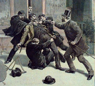 Crop of the cover page of "Le Petit Journal" illustrating the arrest of French anarchist and assassin Ravachol (1859-1892).